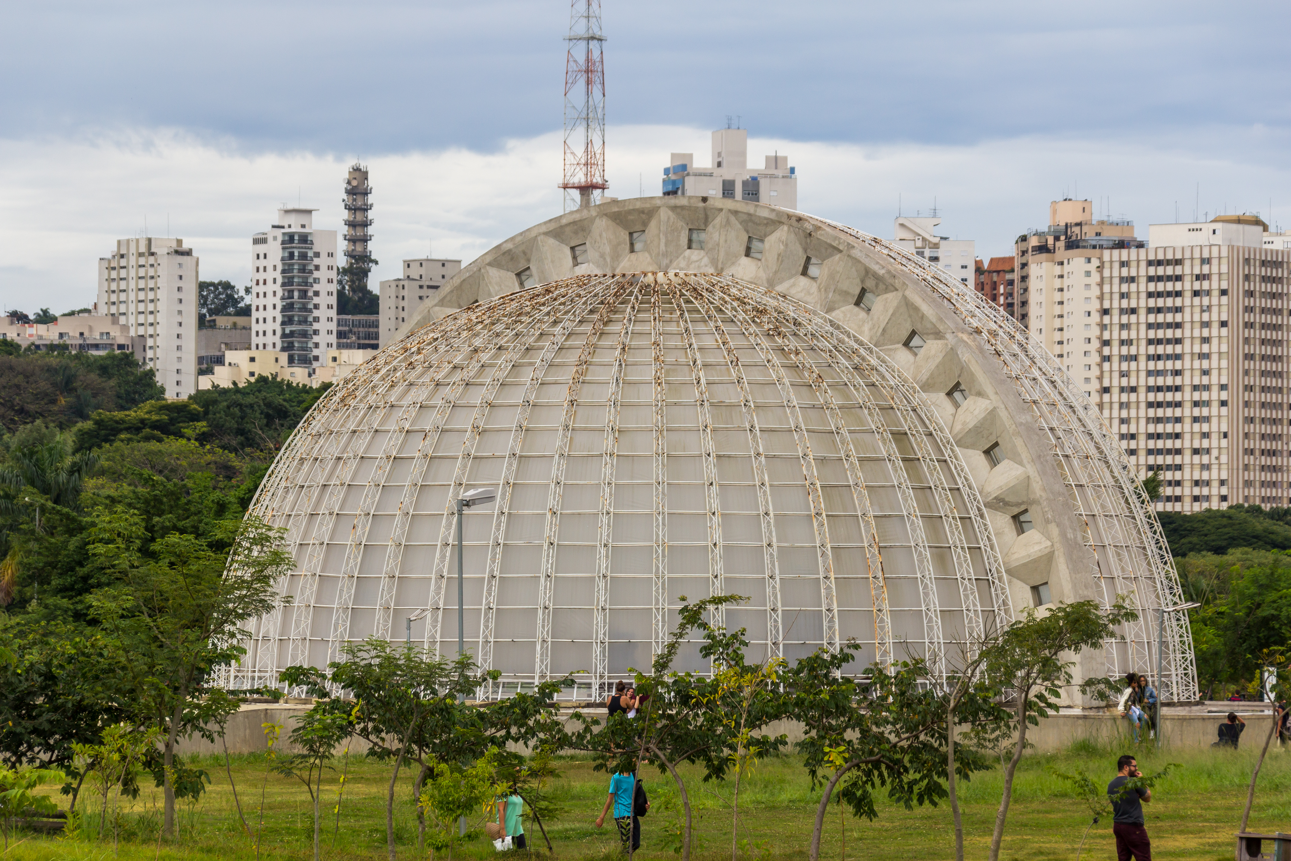 Parque Villa-Lobos, São Paulo, Brazil